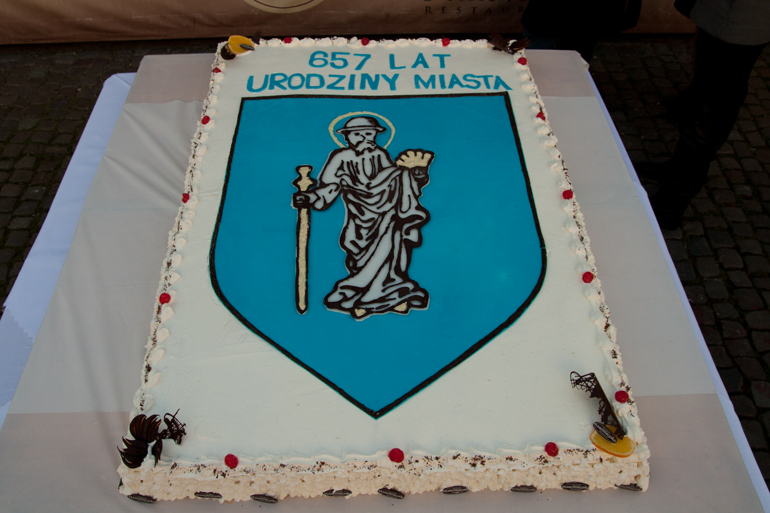 Special cake baked and decorated for 657 birthday of Olsztyn